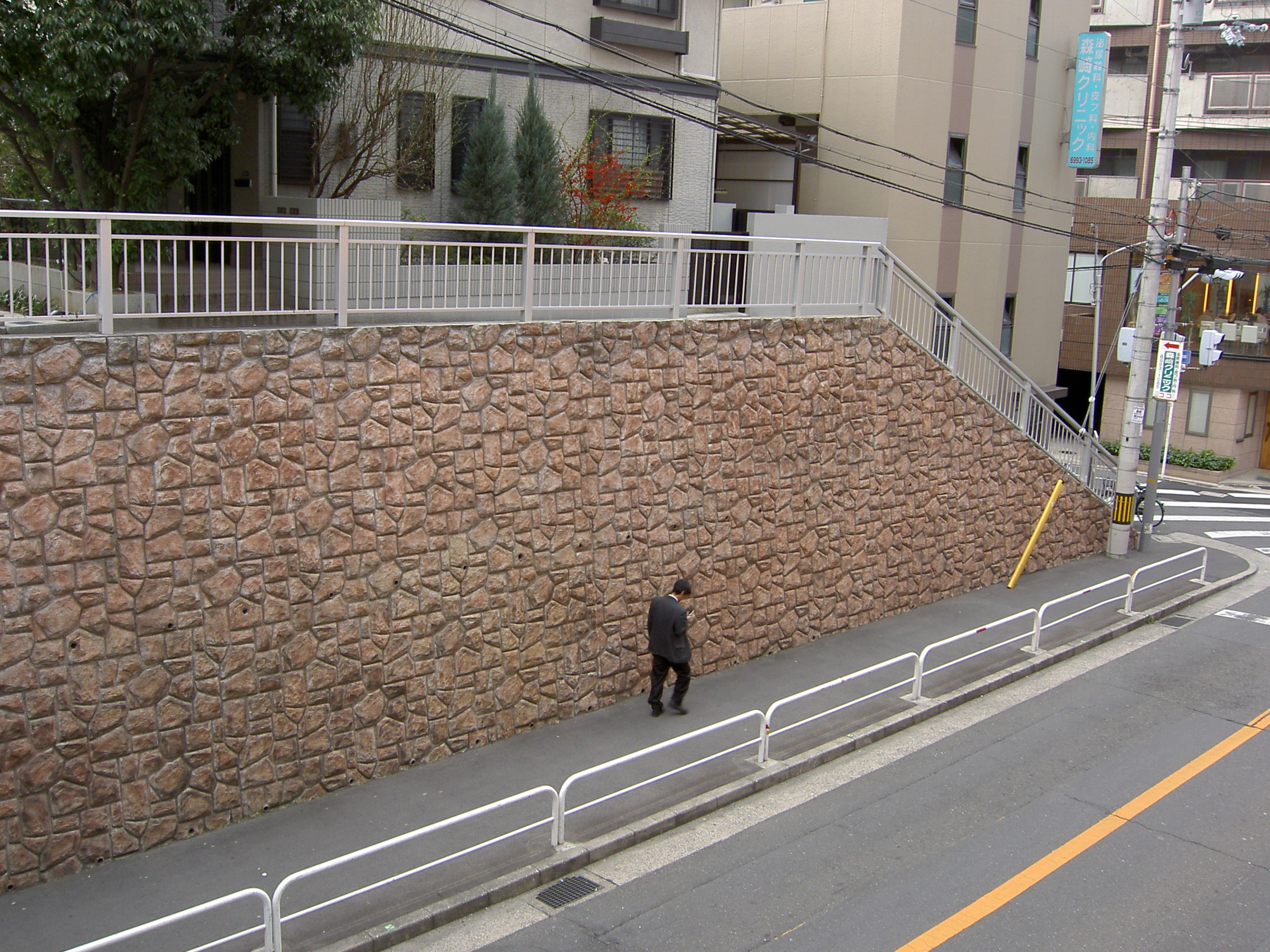 Cross-section of Bunroku-Tsutsumi. Moriguchi-shi, Osaka, Japan.